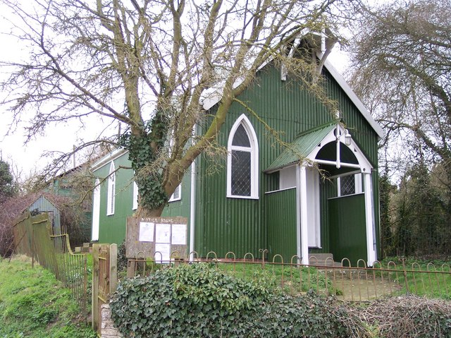 Chapel, Rodley. Near Hill Farm